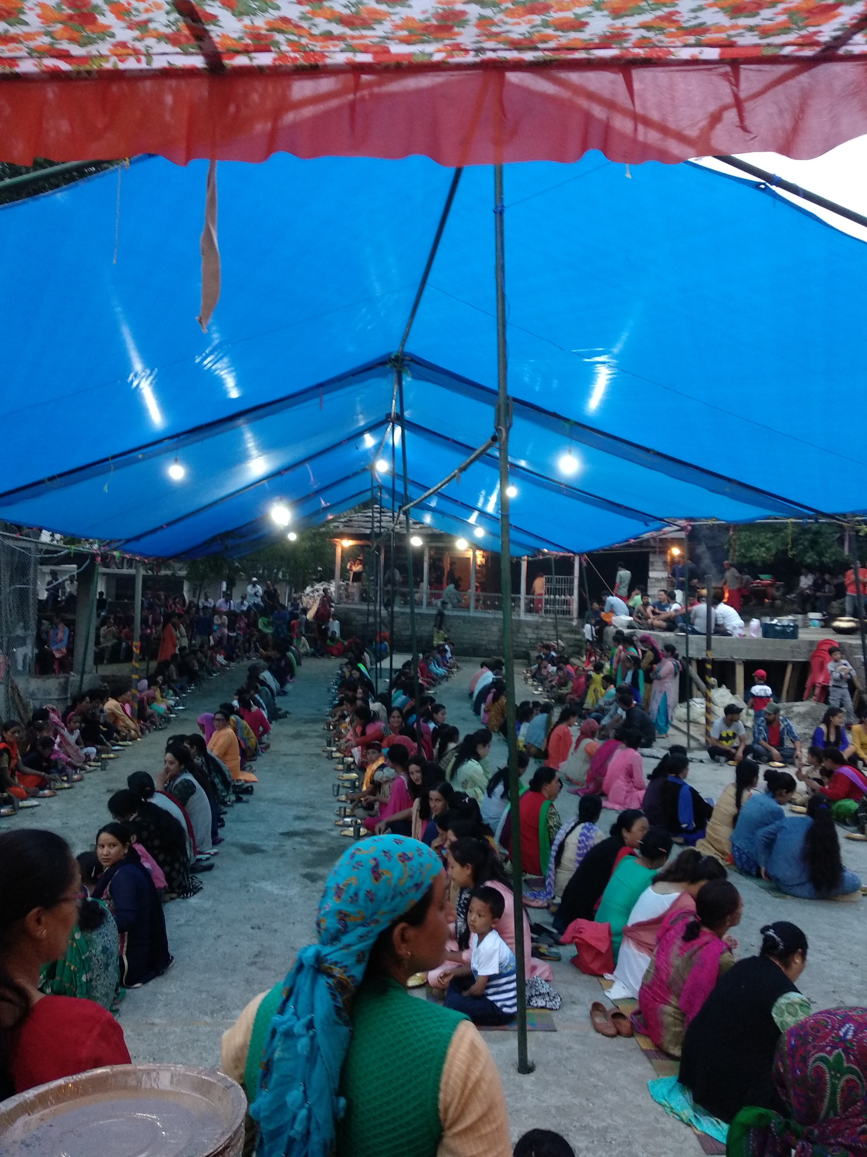 Pangat offered at Vishnu temple in Sajla, Himachal Pradesh